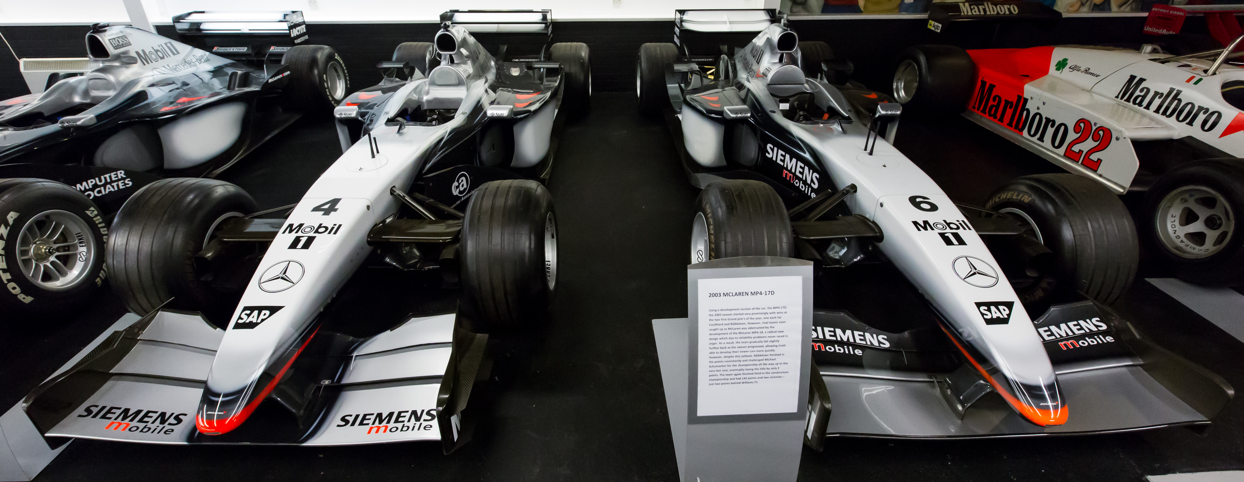 2002 McLaren MP4-17 (left, #4 Kimi Räikkönen) and 2003 McLaren MP4-17D (right, #6 Kimi Räikkönen)